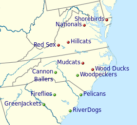 South Atlantic League team locations for the 2017 season.